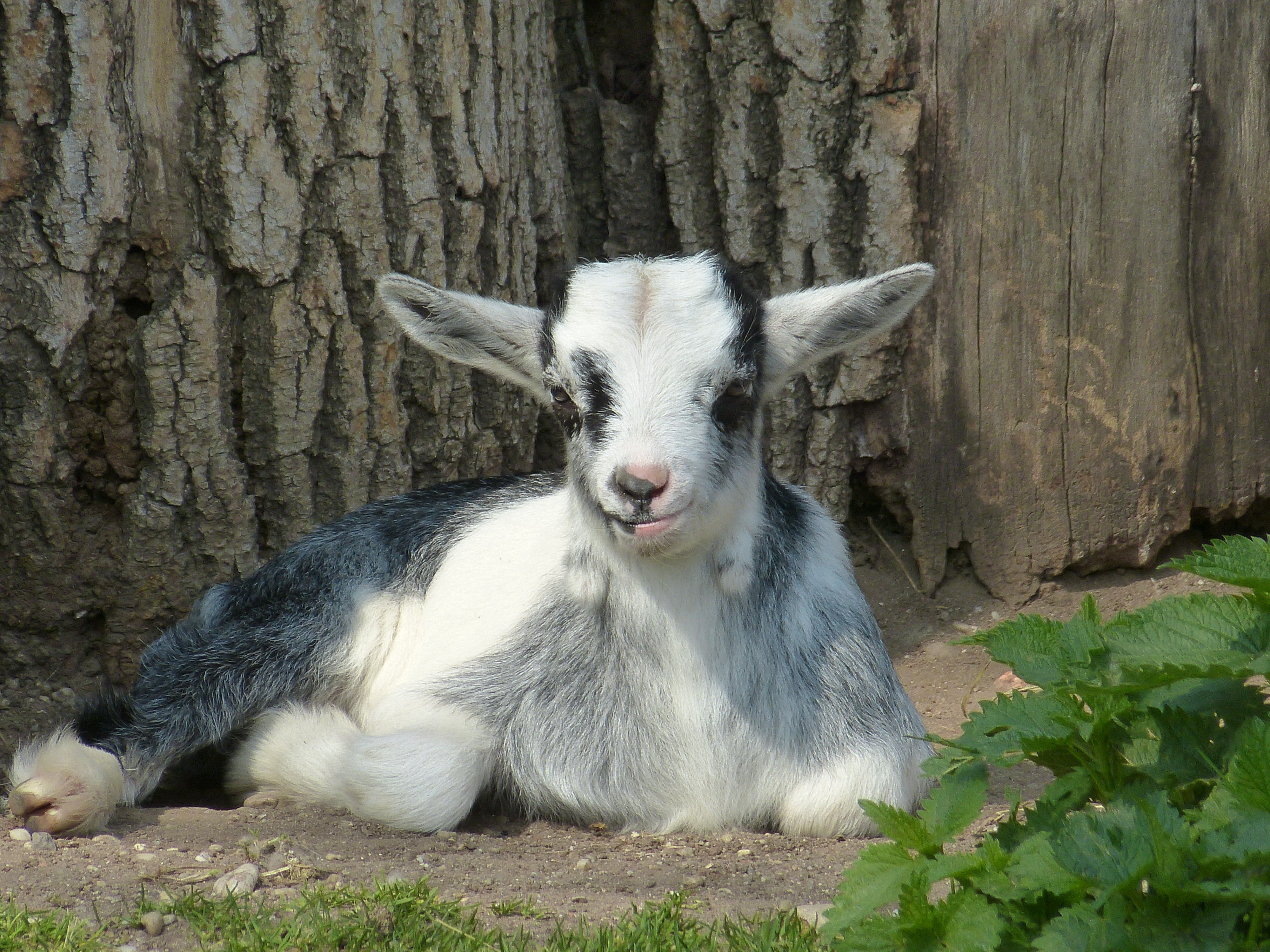 Schloss Hof ( Lower Austria ). Pygmy goat.